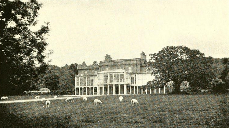 Pitfour House, Aberdeenshire, - the 'Blenheim of the North' Lairds of Pitfour